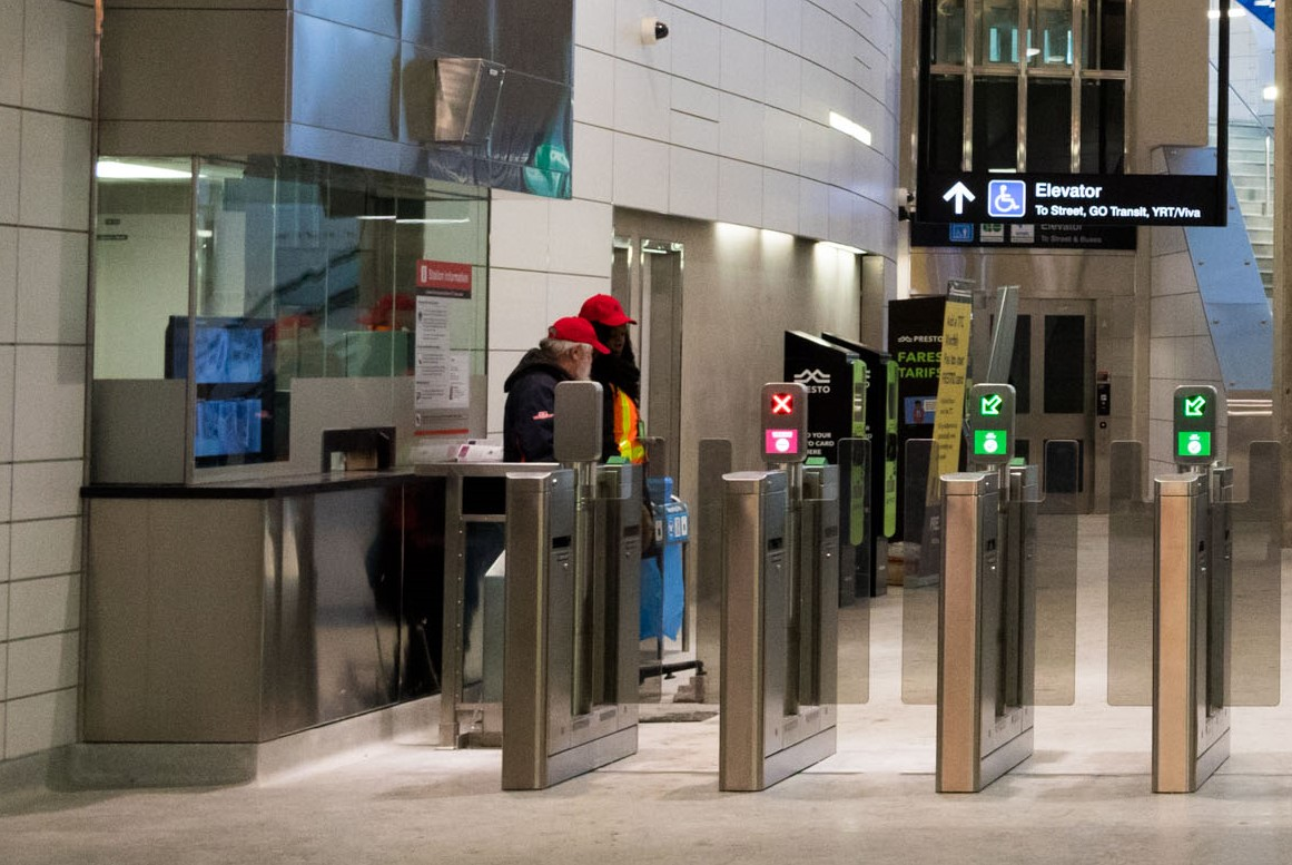 TTC Highway 407 Station Unused Farebooth (Cropped from original by Utima)